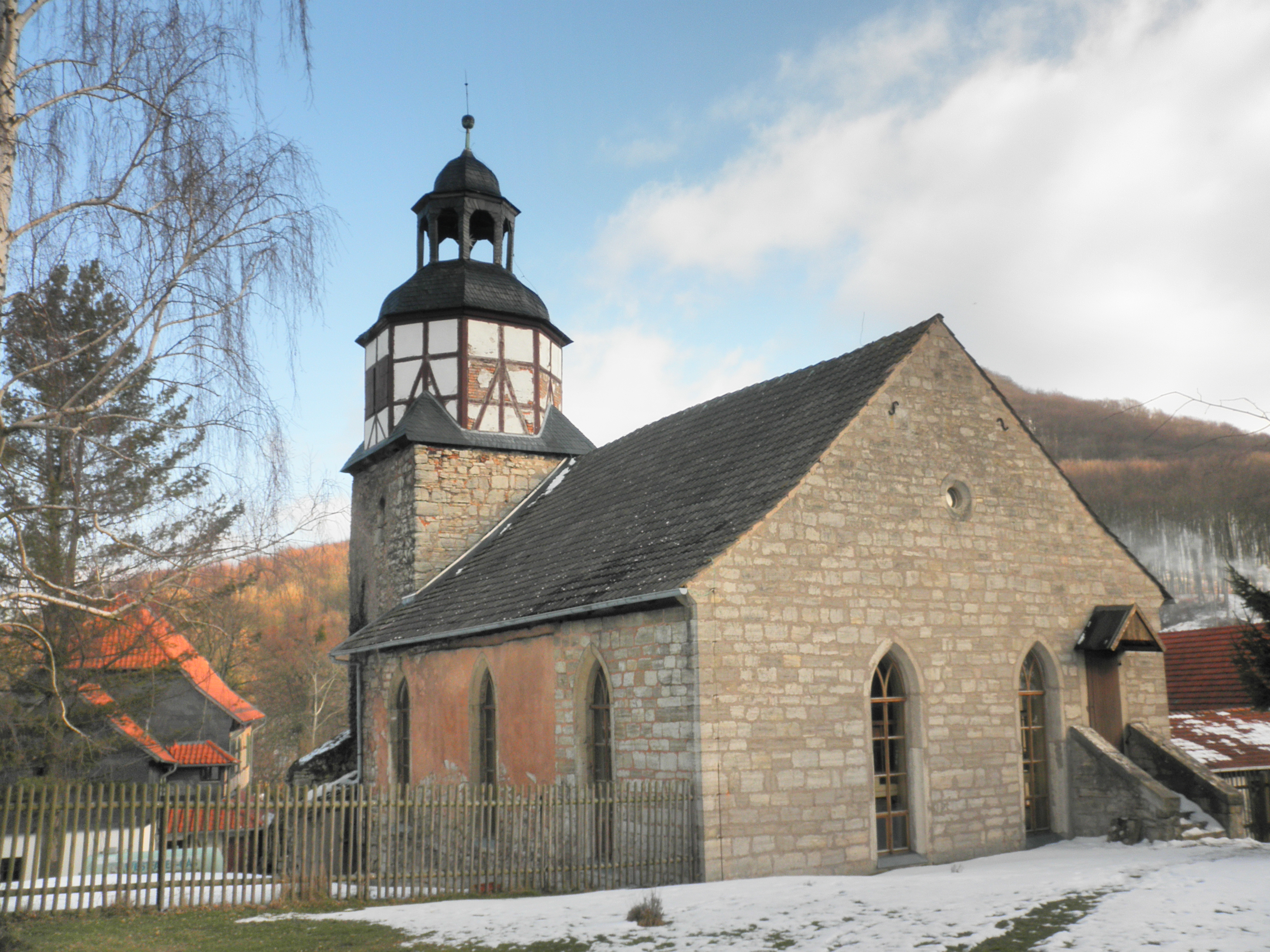 Church in Hainrode (Hainleite) in Thuringia